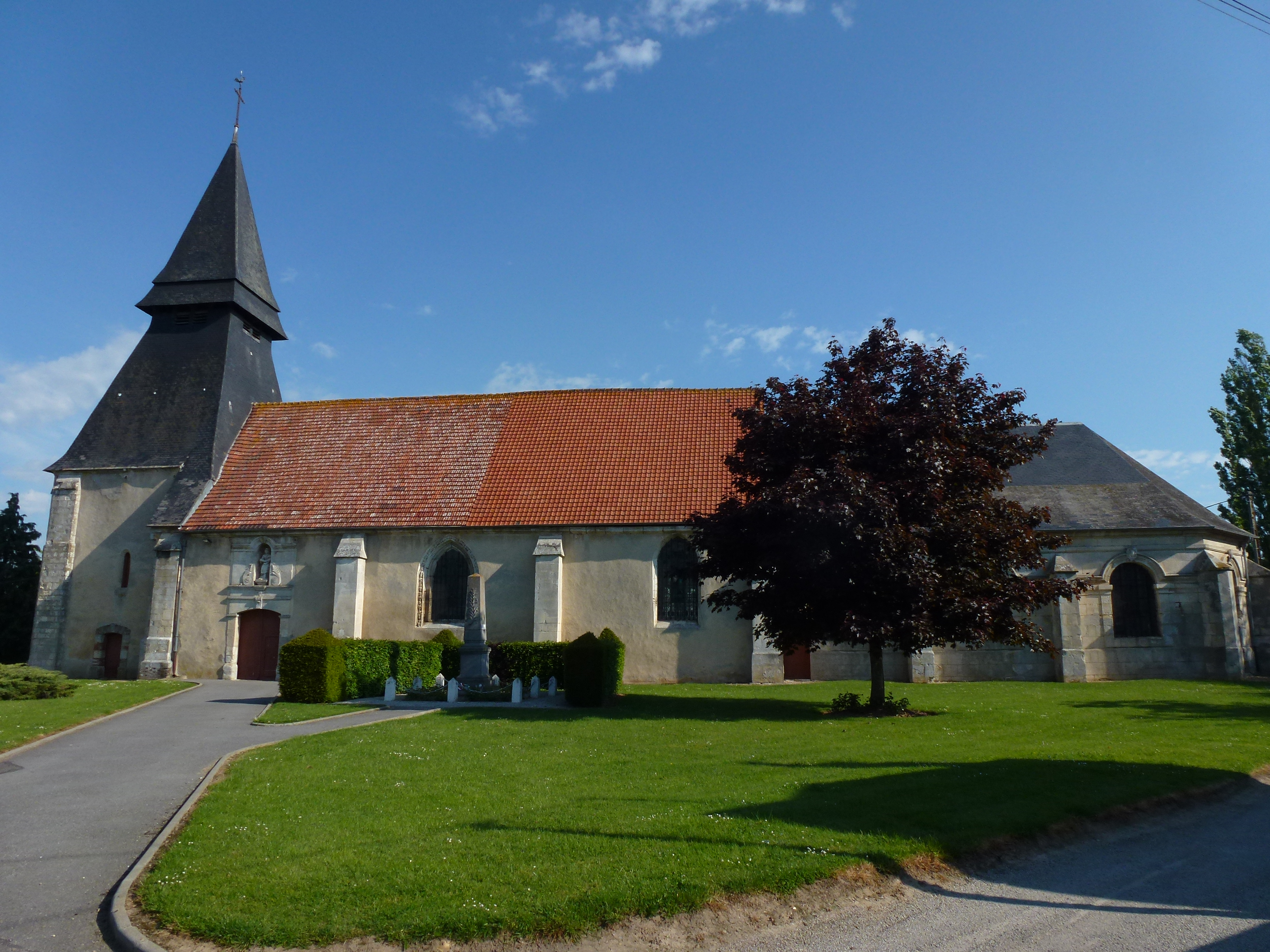 Combon (Eure, Fr) église Notre-Dame